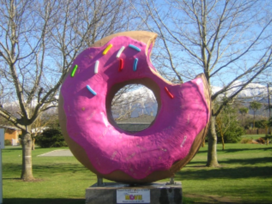 Photograph of the artificial donut erected in Springfield, Canterbury, New Zealand on 1 October 2007.